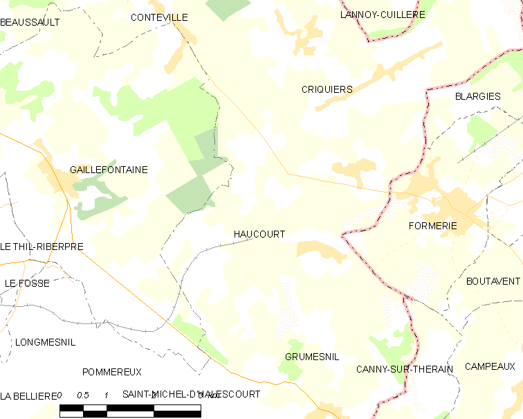 Map of French municipality Haucourt